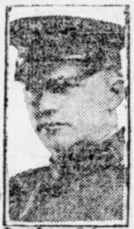 Future Chicago alderman Dorsey Crowe as an Air Service Lieutenant, circa 1917-1919.